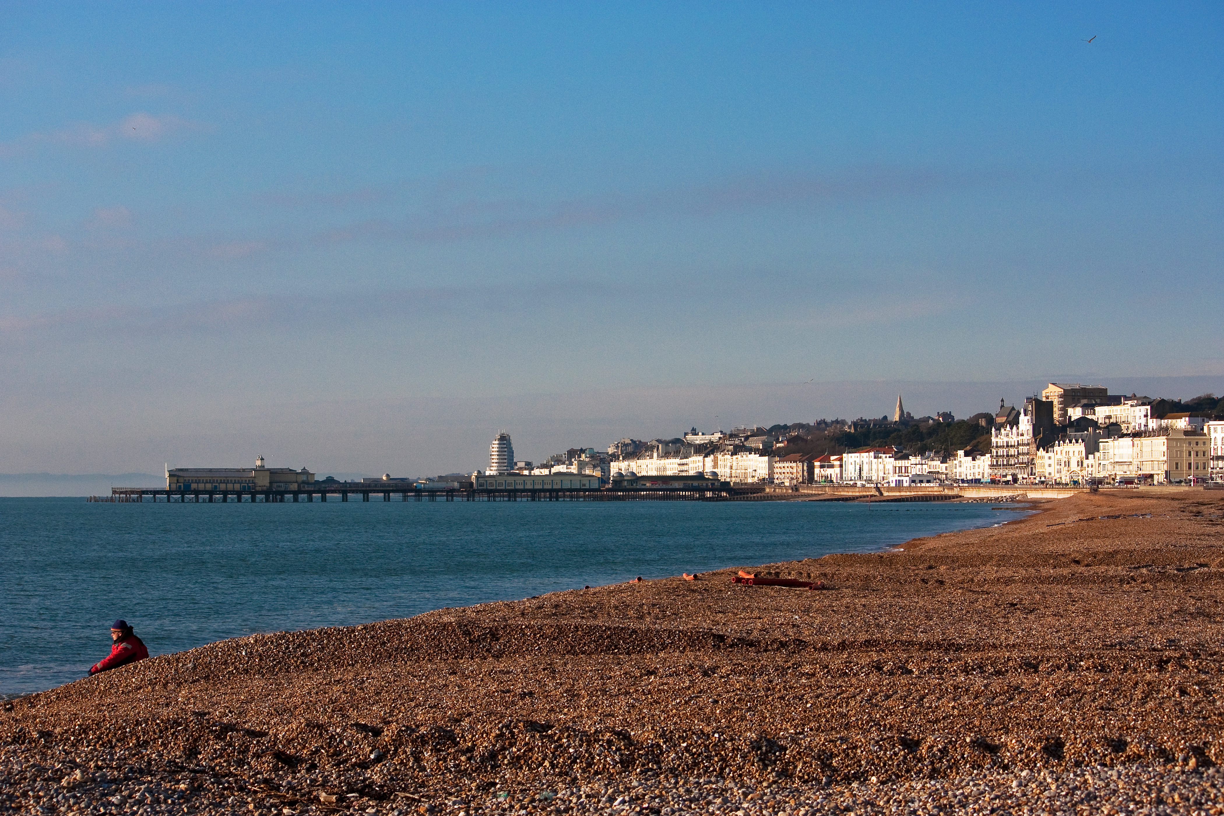 Hastings, Sussex, England.